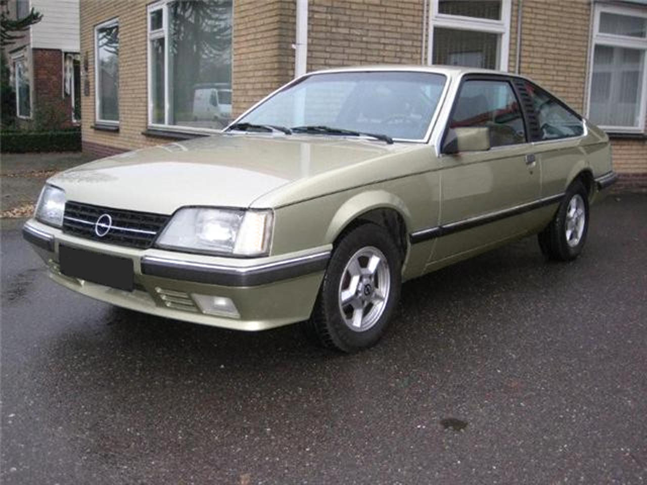 A coupe derived from the Opel Senator; named Monza